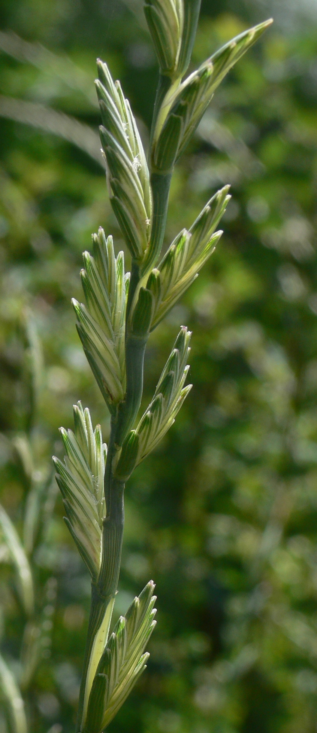 tall wheat grass